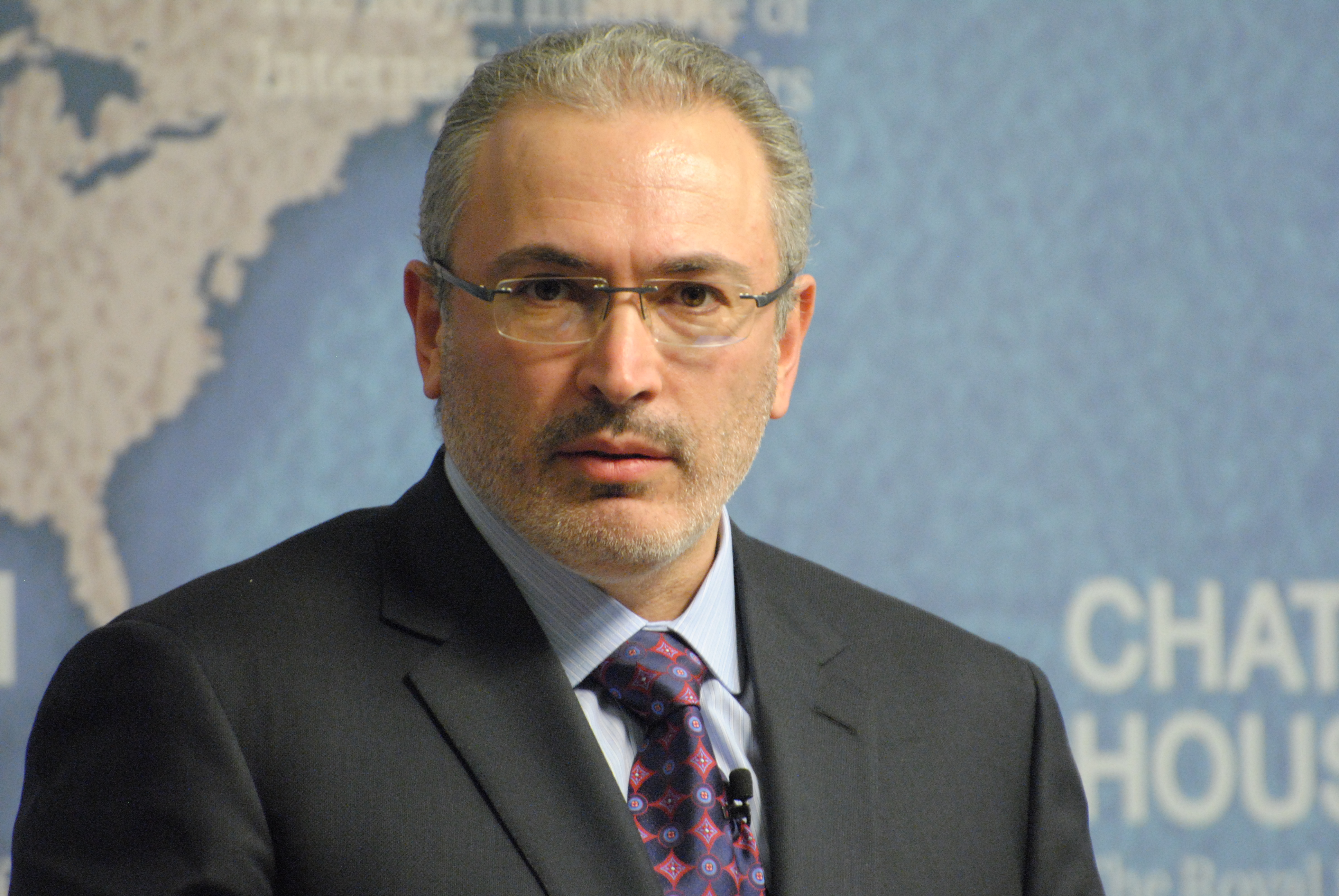 Russia Under Putin and Beyond: The Annual Russia Lecture, 26 February 2015, cht.hm/1Dh3GOq